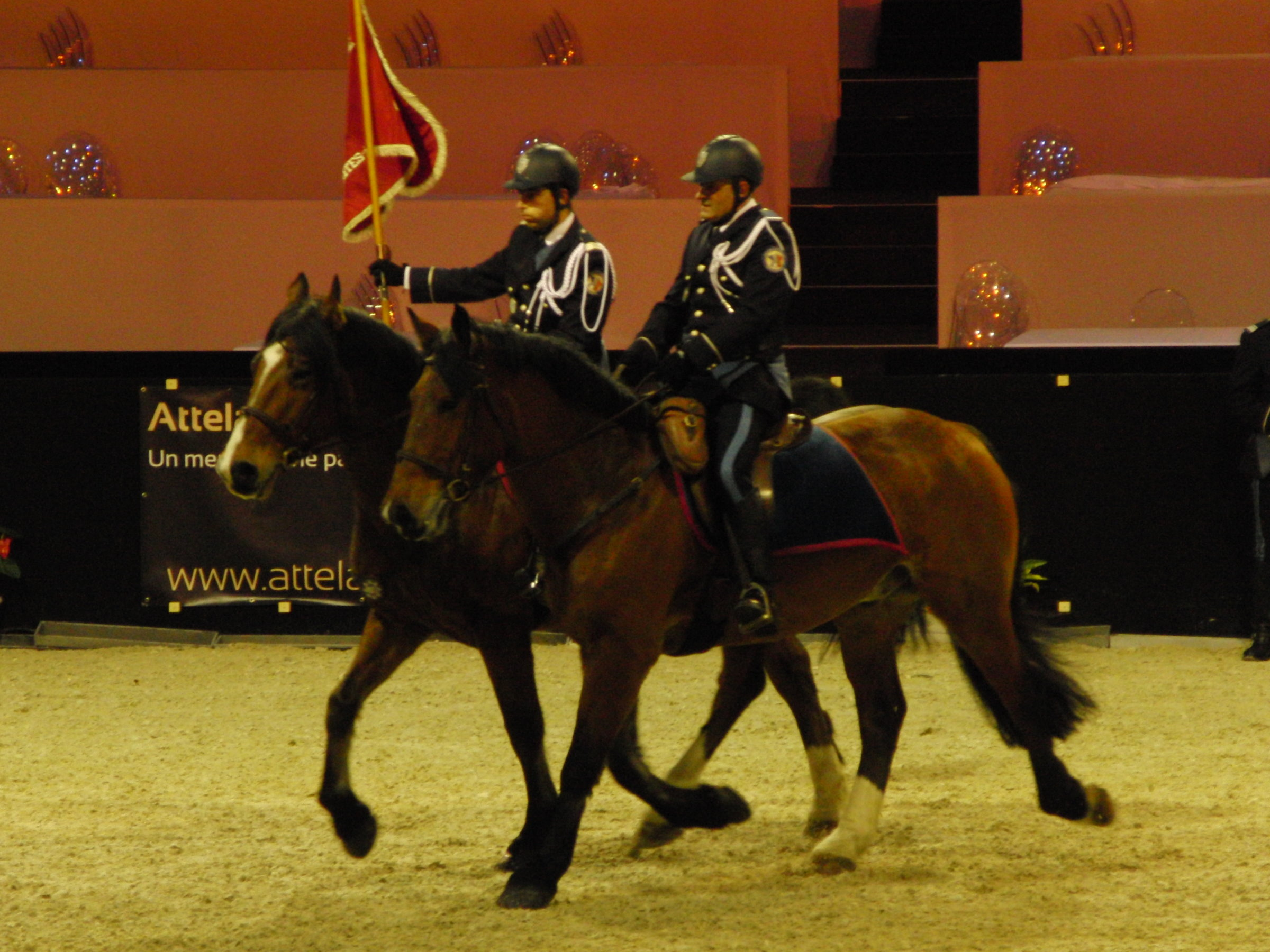 Two Cobs normands with mounted policemen - Salon du cheval de Paris 2009, France